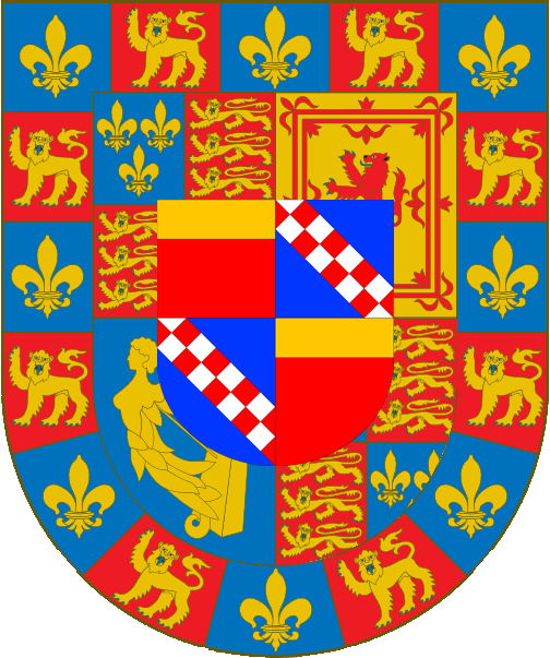 Escudo de Armas de Rosalia Giuseppa Antonia Enrichetta Maria Ventimiglia di Grammonte, duquesa de Alba.